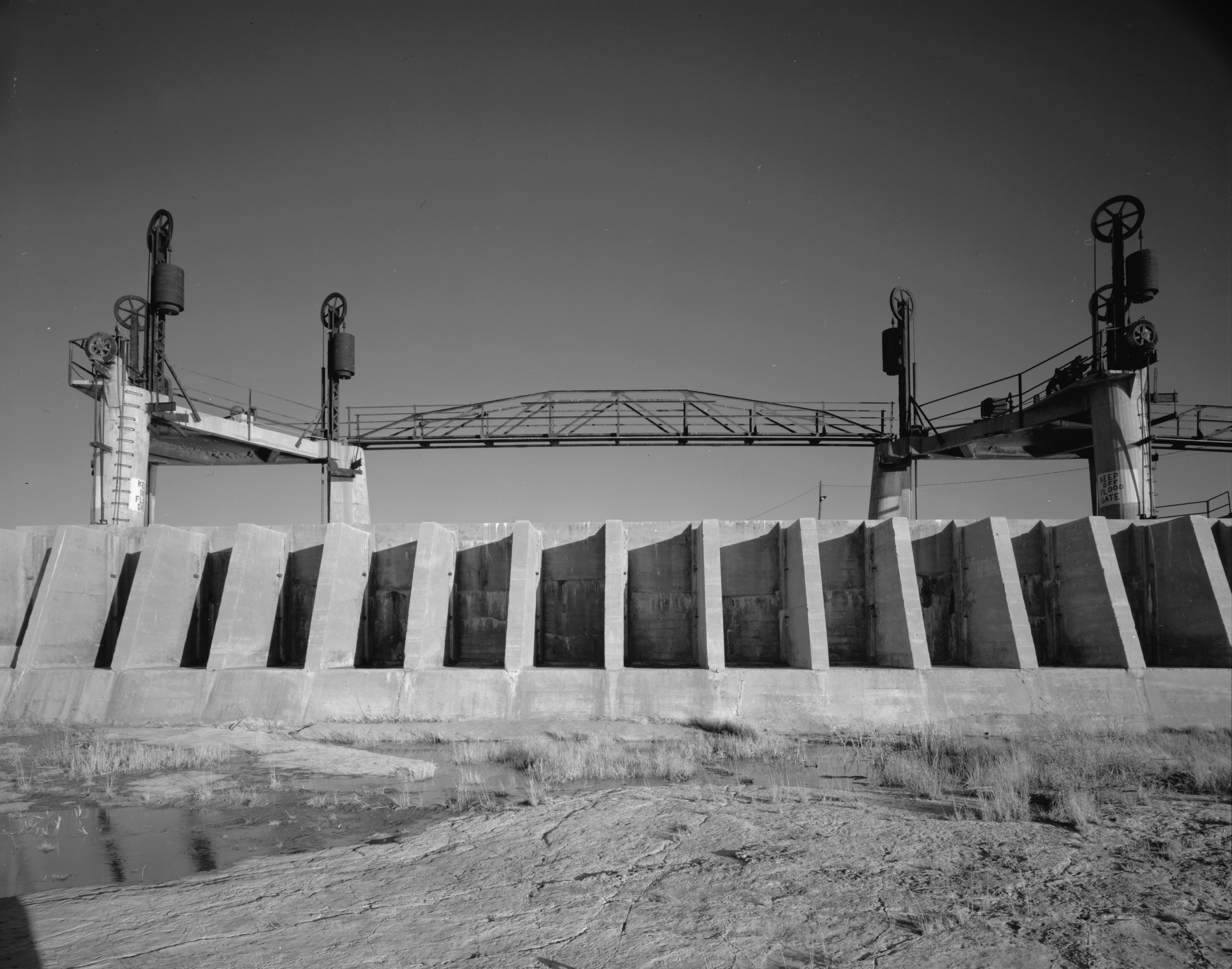 Carlsbad Irrigation District, Avalon Dam, On Pecos River, 4 miles North of Carlsbad, Carlsbad vicinity (Eddy County, New Mexico)